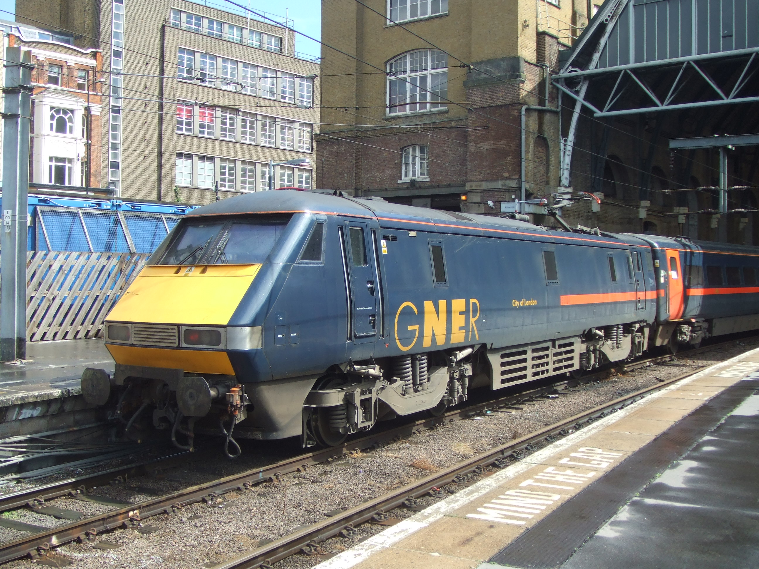 BR/GEC Class 91 6,090 hp 25k v ac overhead Bo-Bo No.91 101 "City of London" of GNER at Kings Cross on an Edinburgh Waverley service 07/07.